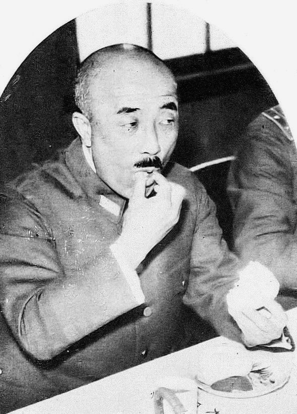 Seishirō Itagaki eating bentō